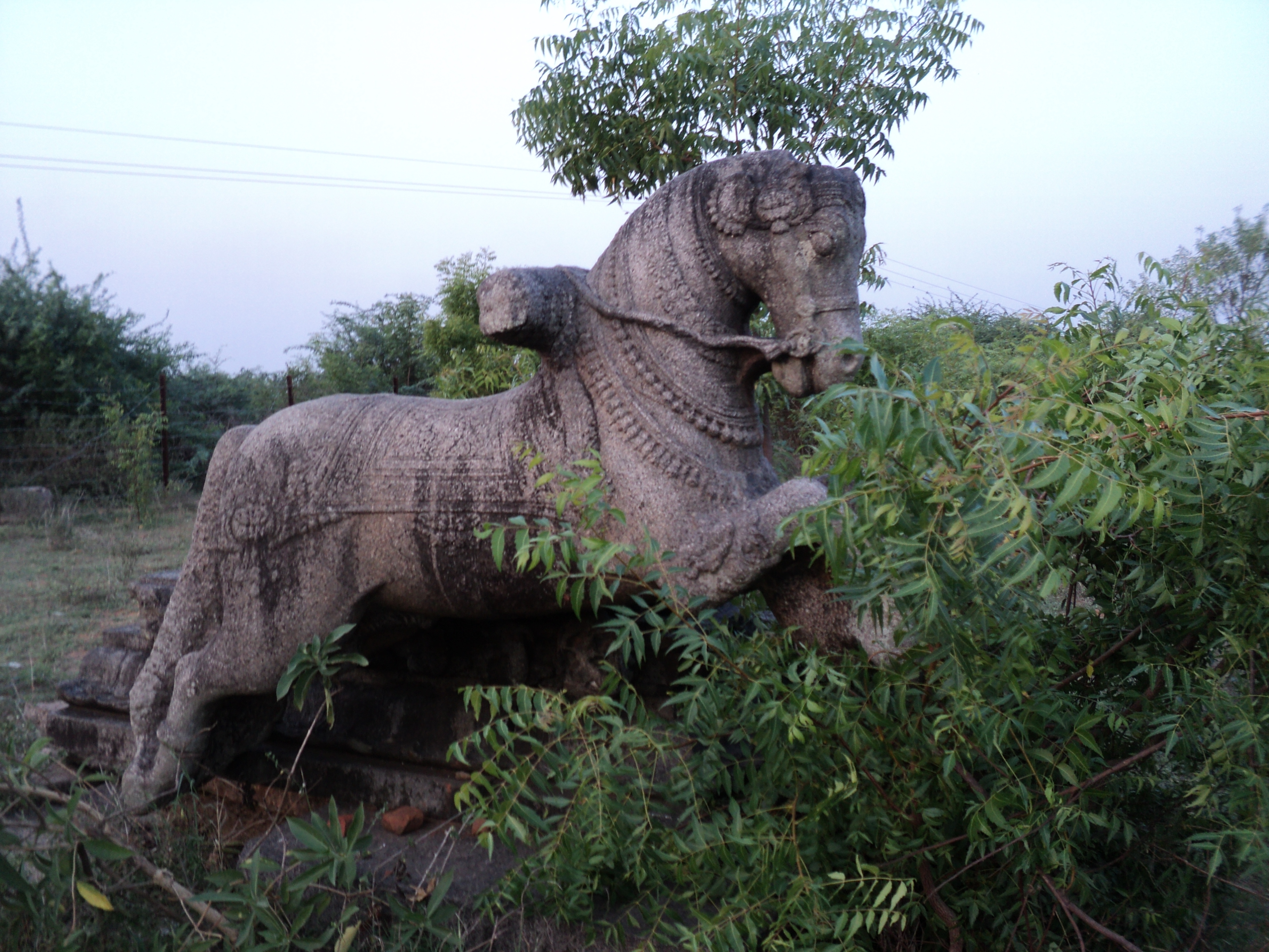 Horse shaped musical sculpture in Senthamangalam temple, Tamilnadu